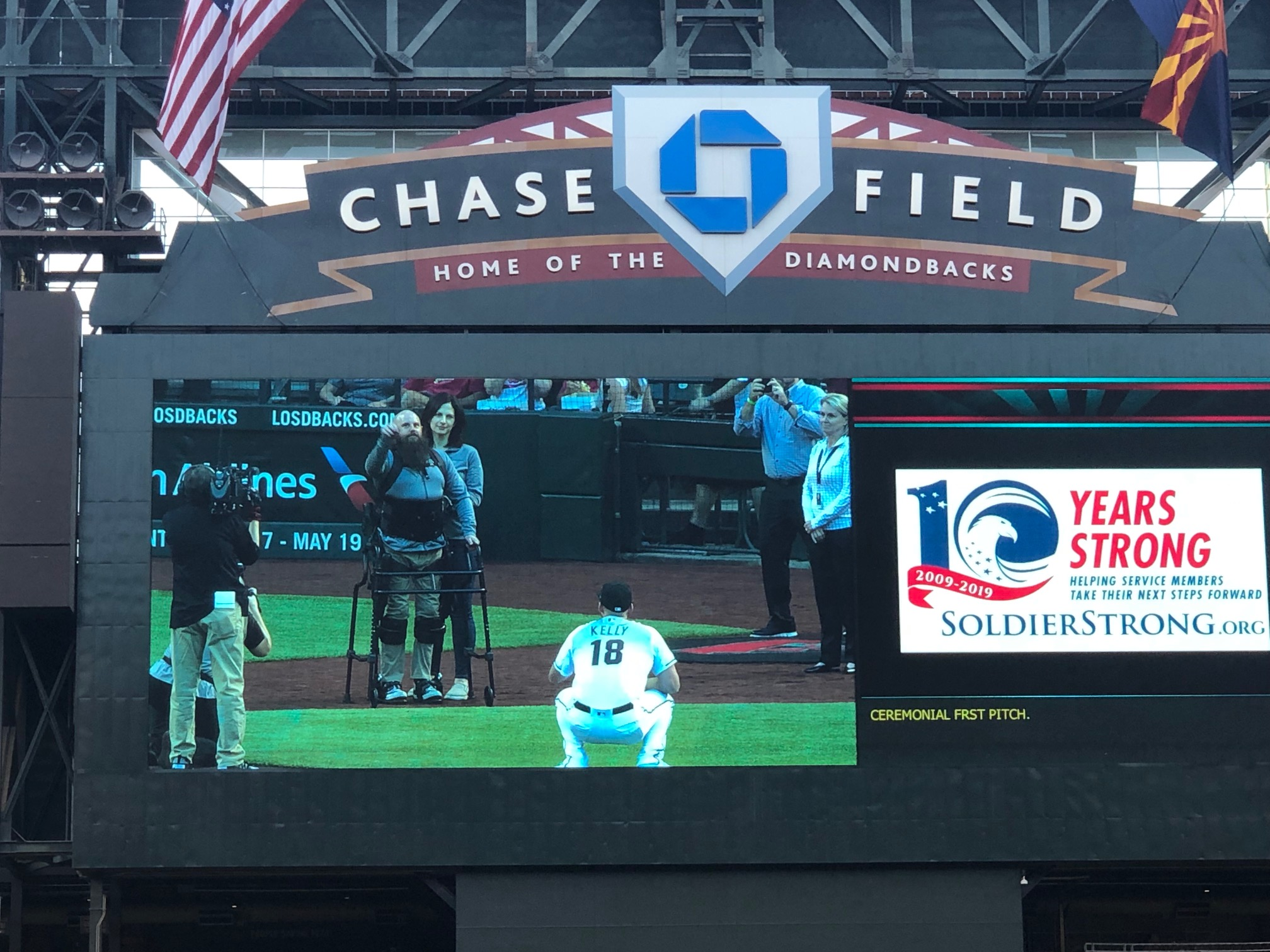 SoldierSuit recipient, seen on the jumbotron throwing the first pitch at a Major League Baseball game, during a "Welcome Back Veterans" event honoring those who have served